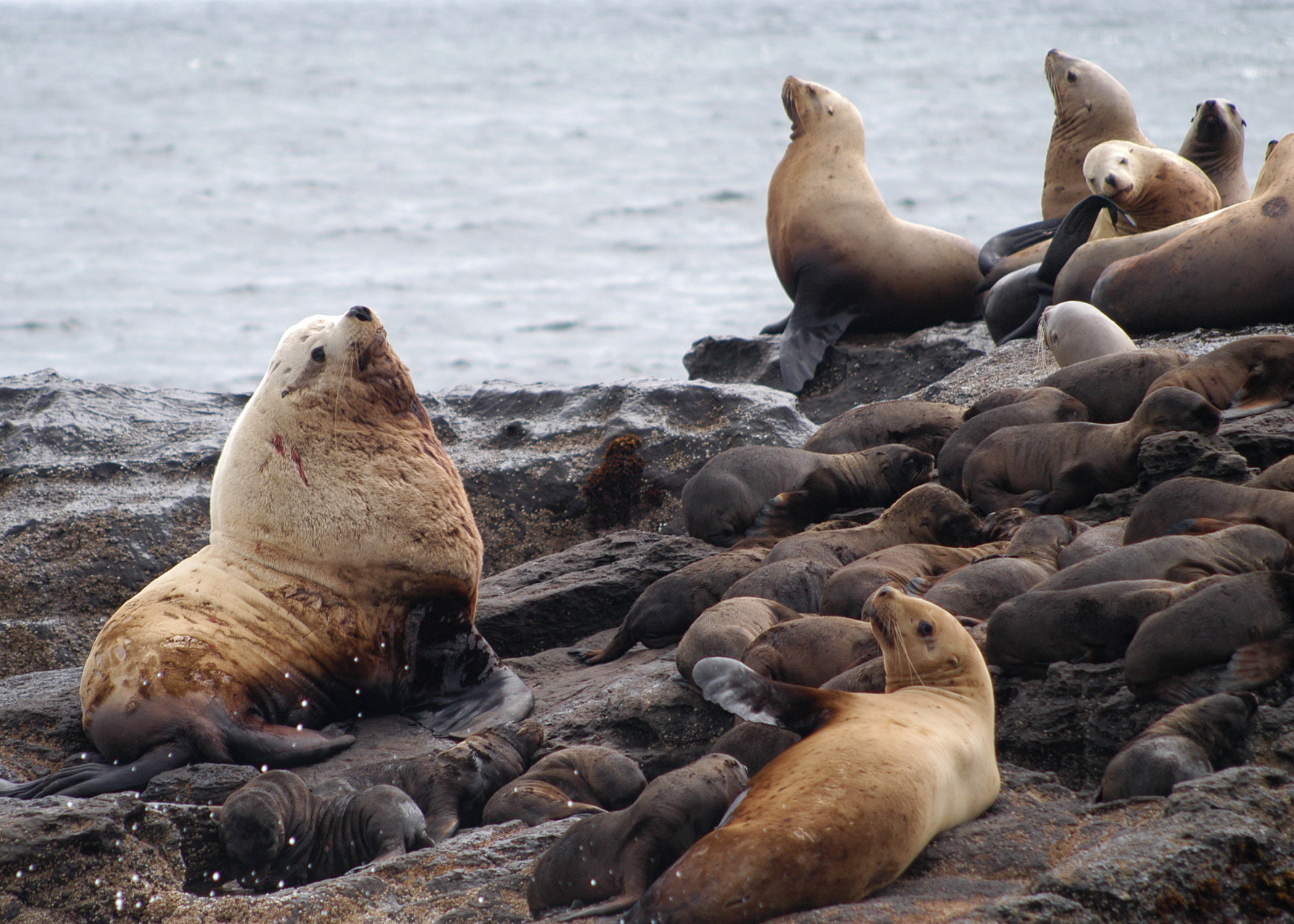 Steller sea lion rookery Rogue Reef